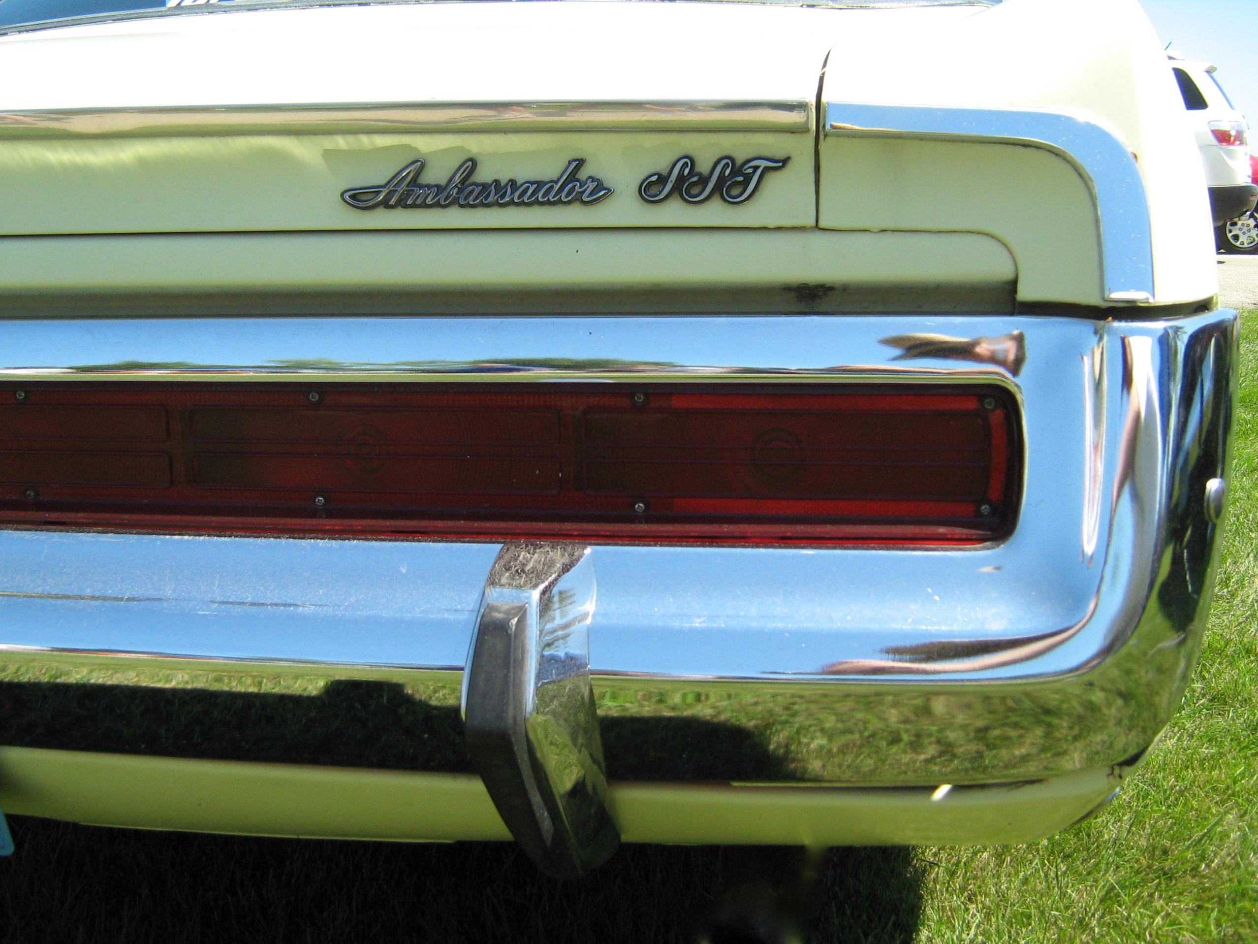 Taillamp detail and model name on a 1970 AMC (American Motors Corporation) Ambassador SST two-door hardtop (no "B" pillar) finished in Hialeah Yellow (paint code P58) - photograph taken in Kenosha, Wisconsin. This car features AMC's 360 cubic inch (5.9 L) L) V8 engine, as well as the factory optional black vinyl roof cover.